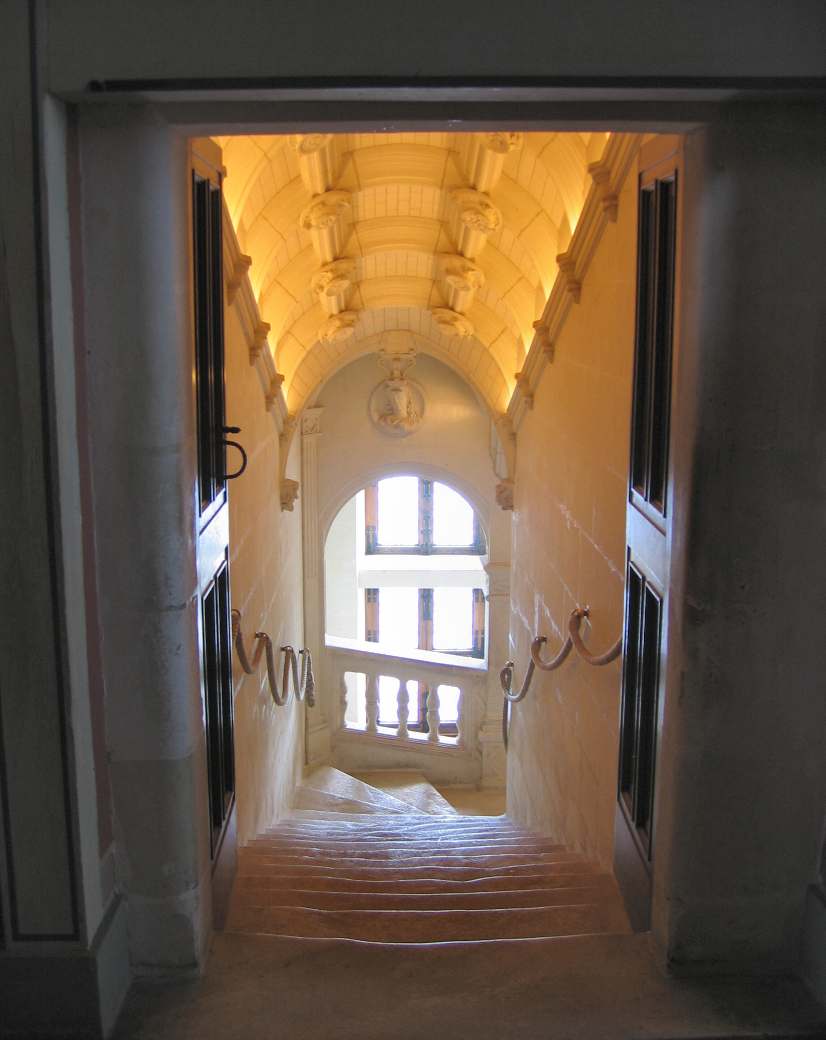 Stairs in the château de Chenonceau